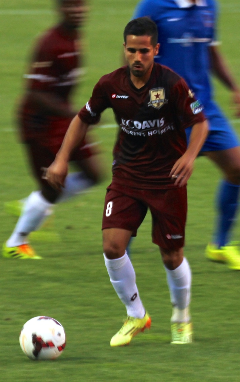 Rodrigo Lopez playing for Sacramento Republic FC in a USL Pro match against Orange County Blues